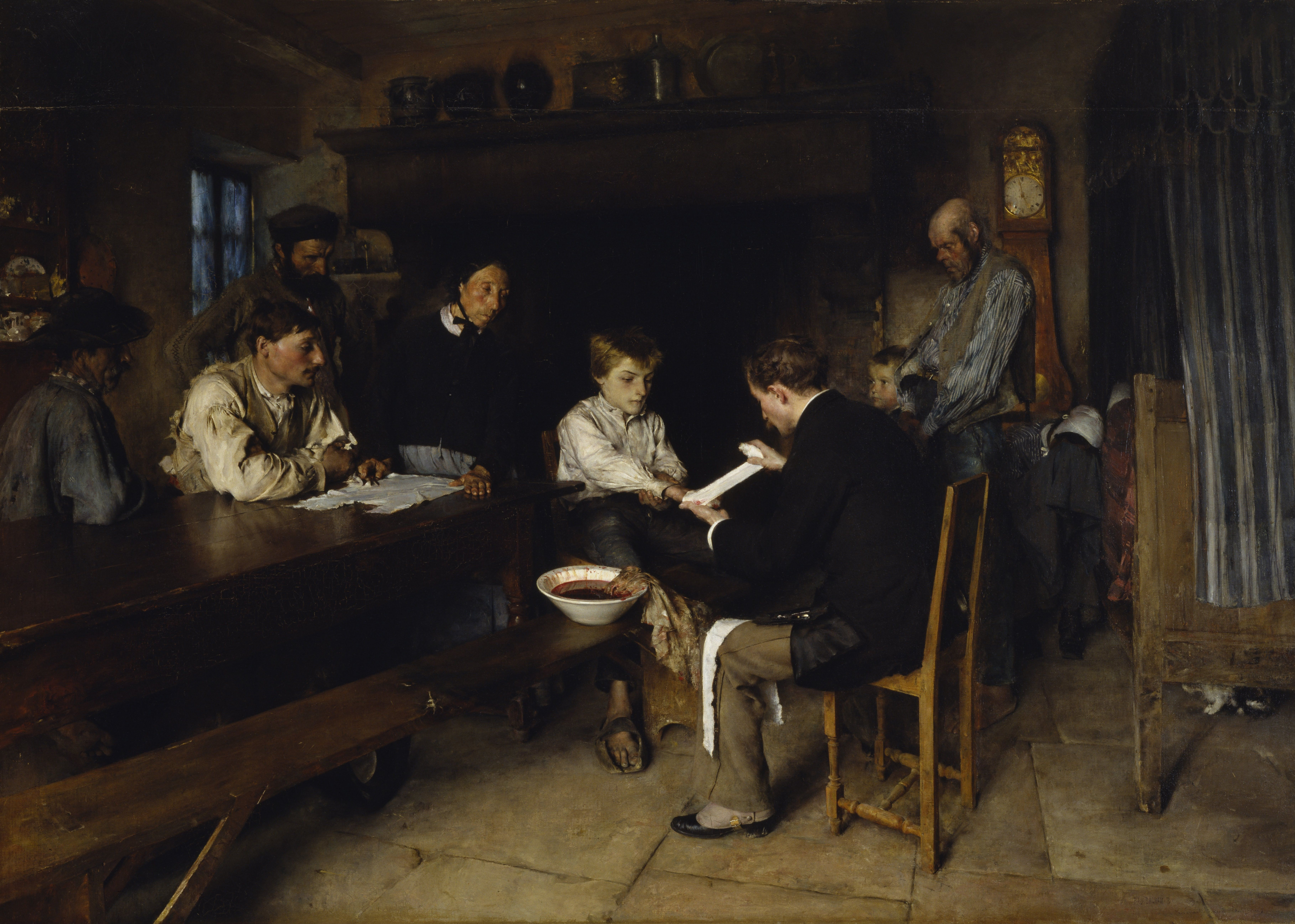 After training with Alexandre Cabanel (1823-89) and Jean-Léon Gérôme (1824-1904), Dagnan-Bouveret turned from Classical themes to subjects drawn from everyday life. In this scene, a country doctor bandages a boy's injured hand, while his family looks on with varying expressions of concern. The artist witnessed an incident like this while traveling with a doctor friend in the Franche-Comté region of eastern France. When this painting was exhibited at the Paris Salon in 1880, it established the artist's reputation as both a perceptive reporter of rural customs and a Realist who explored the psychological states of his subjects.